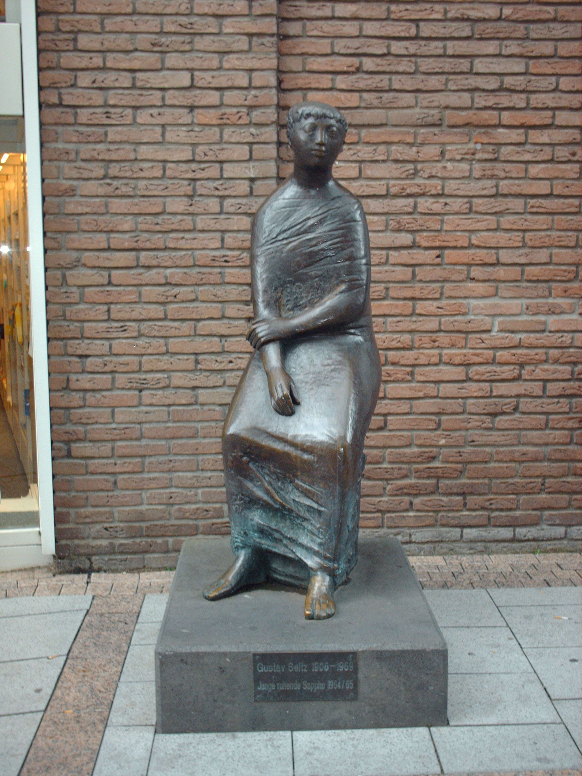 Jungende ruhende Sappho by Gustav Seitz, Iserlohn, Germany check usage